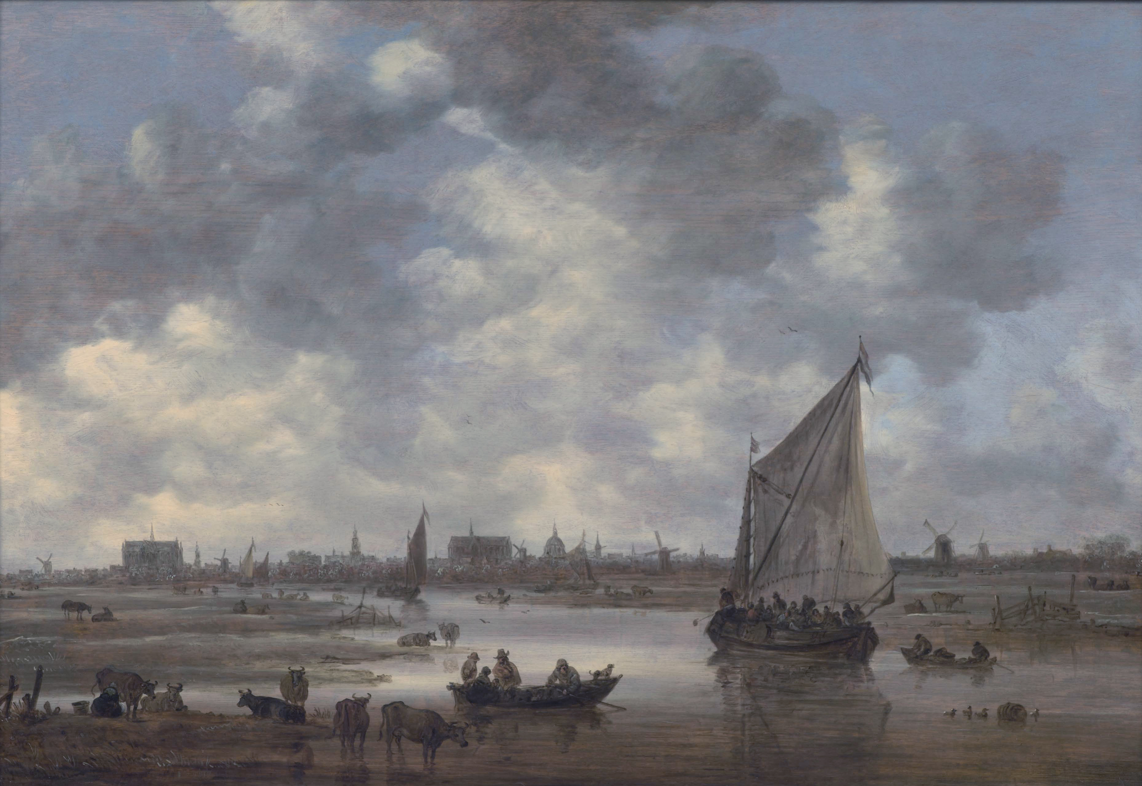 View of Leiden from the north-east oil on panel 66,5 x 97,5 cm signed c.: VG 1650